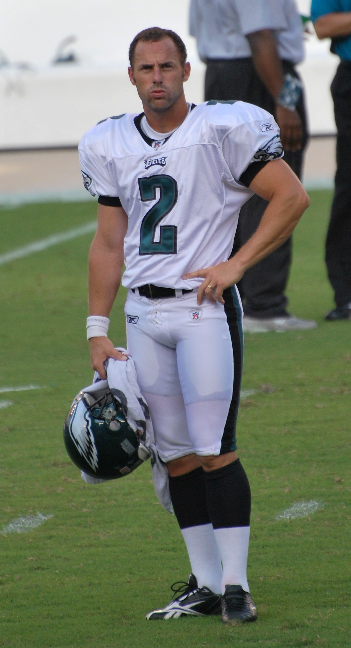 Akers in August 09.